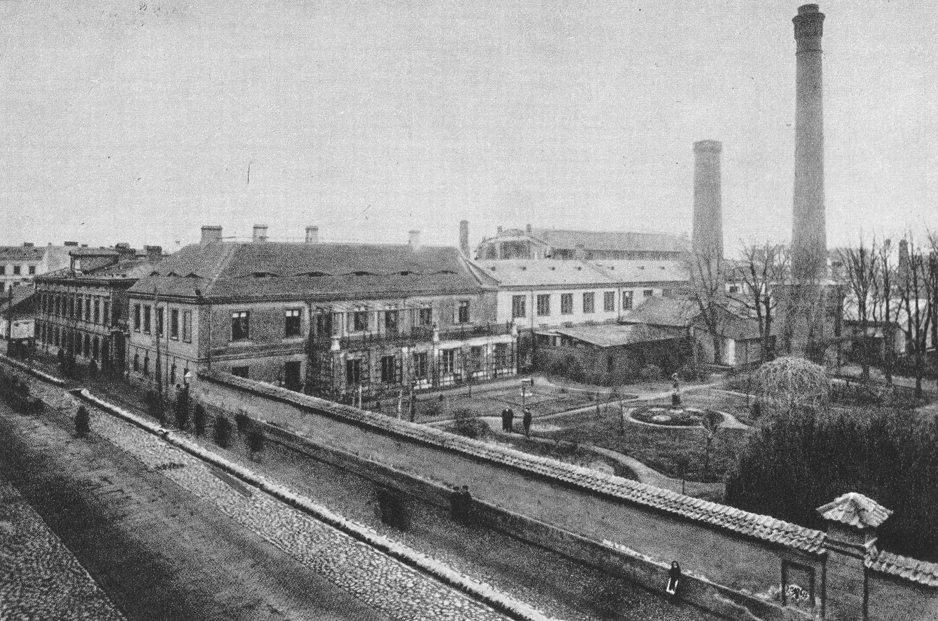 Norblin, Bracia Buch i T. Werner Works in Warsaw, view from Żelazna Street